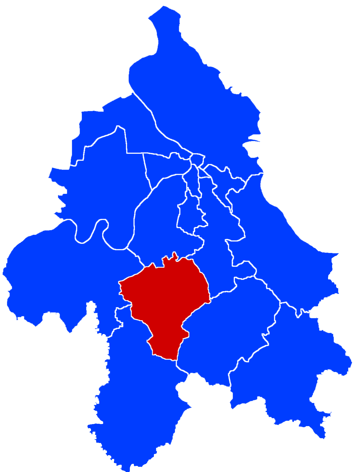 The graphical representation of the municipality of Barajevo within the city of Belgrade